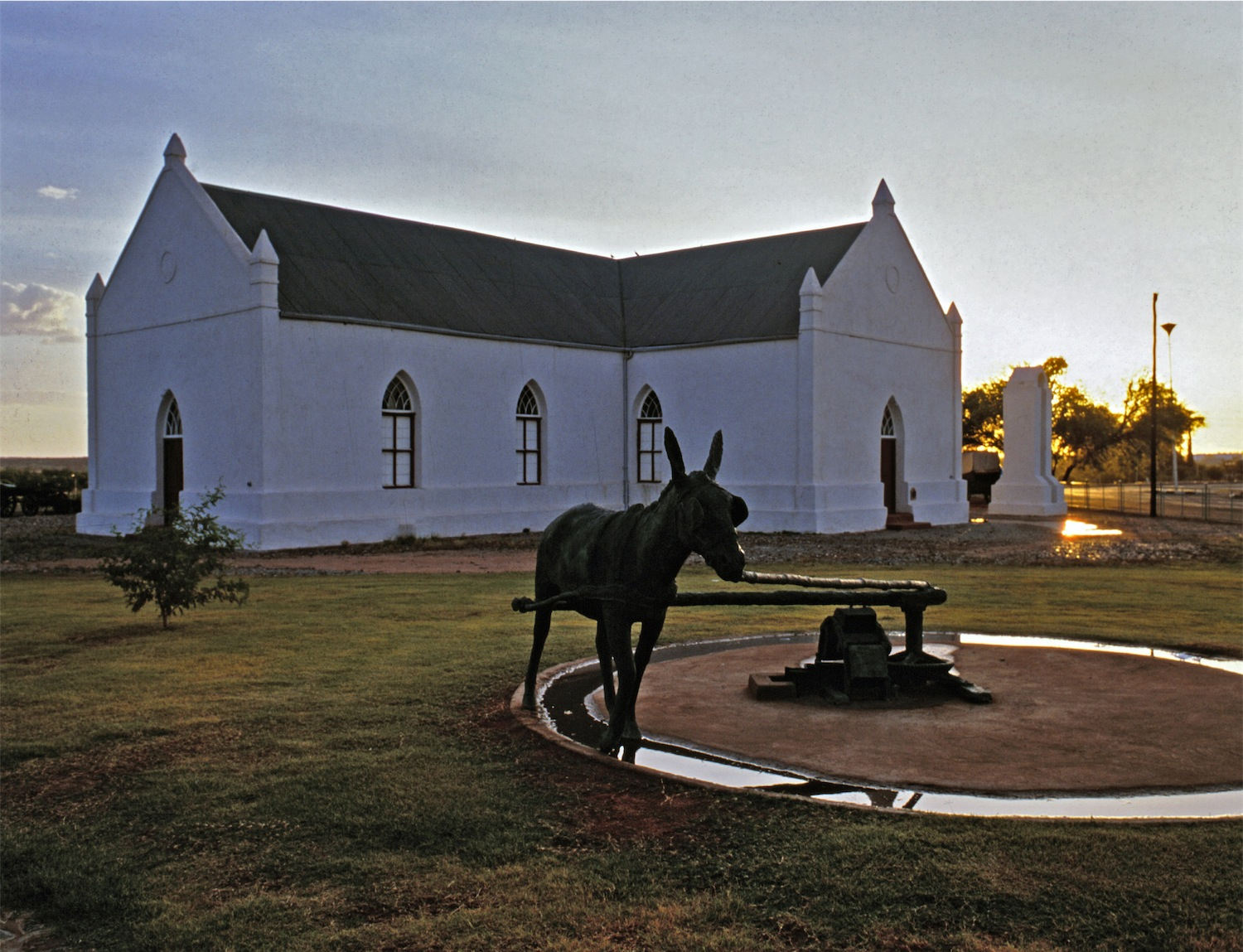 This media shows a South African Protected Site with SAHRA file reference 9/2/032/0018.